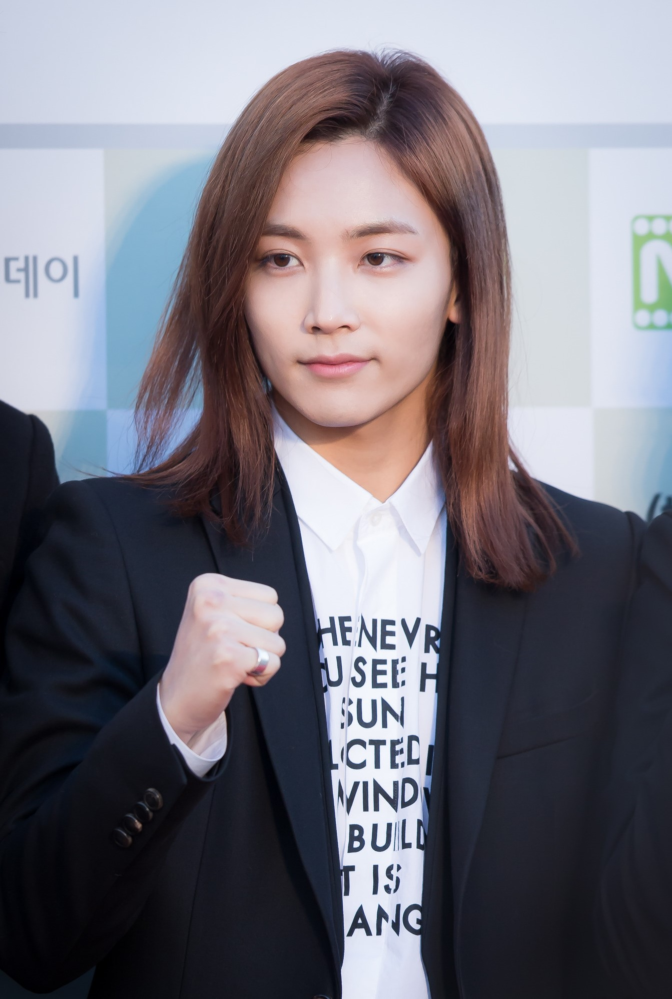 Junghan on the red carpet of the Gaon Chart K-pop Awards, on February 17, 2016.